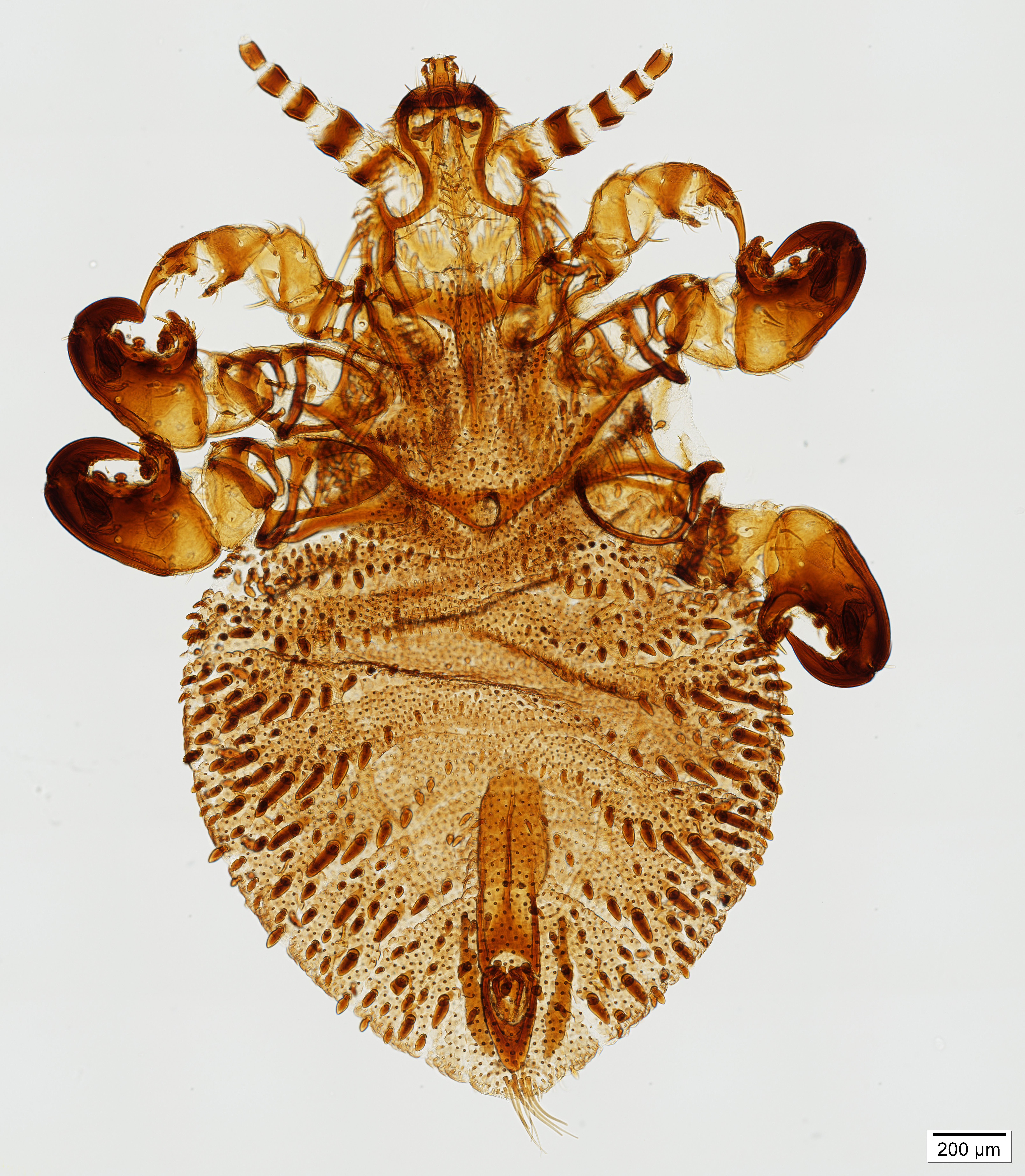 Male Antarctophthirus trichechi (Bohemann, 1865) (Echinophthiriidae), a parasite of walruses (Odobenus rosmarus). Collected from a walrus on St. Lawrence Island.